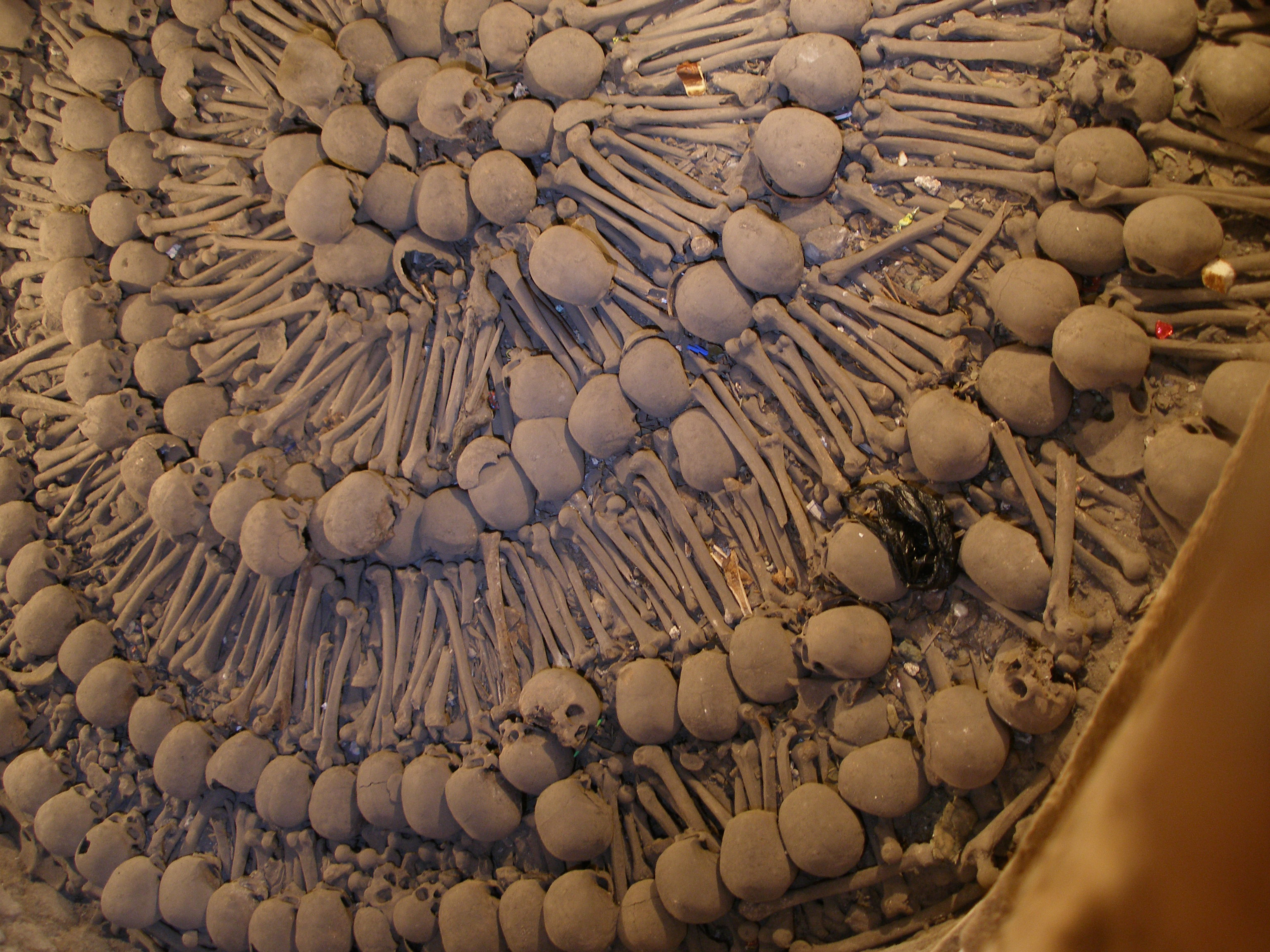 Catacombs in the basement of the San Francisco monastery of Lima, Peru. Sealed and lost for hundreds of years, the catacombs were re-opened and found to contain the remains of more than 70,000 people.